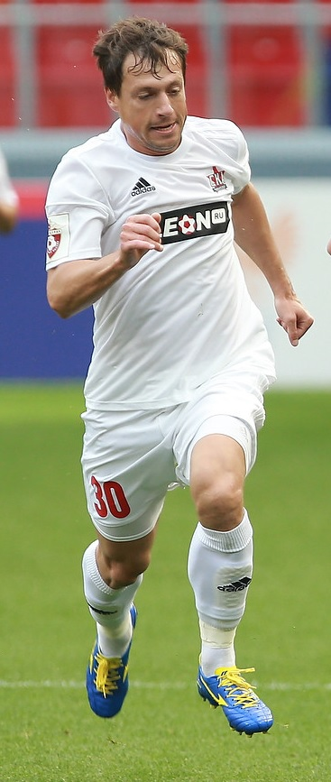 Aleksei Druzin with FC SKA-Khabarovsk in a game against PFC CSKA Moscow.